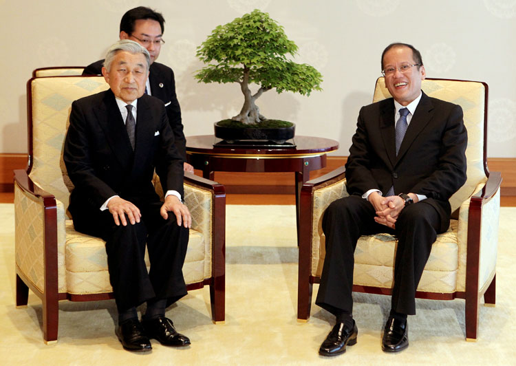 Benigno Aquino III, President, met Emperor Akihito at the Audience Room, Tokyo Imperial Palace in Chiyoda Ward, Tōkyō Metropolis on September 28, 2011.